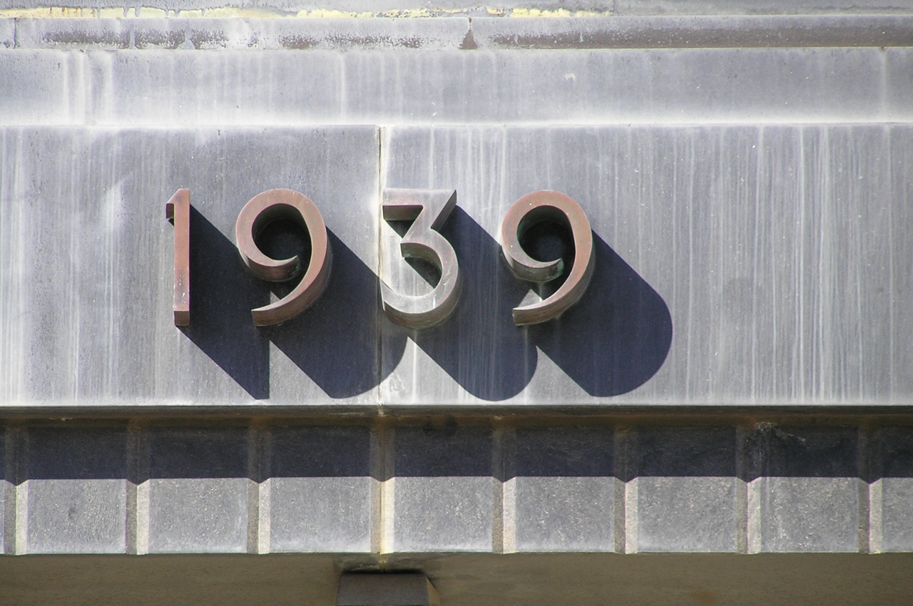 The build-date removed with the rebuild in 2005